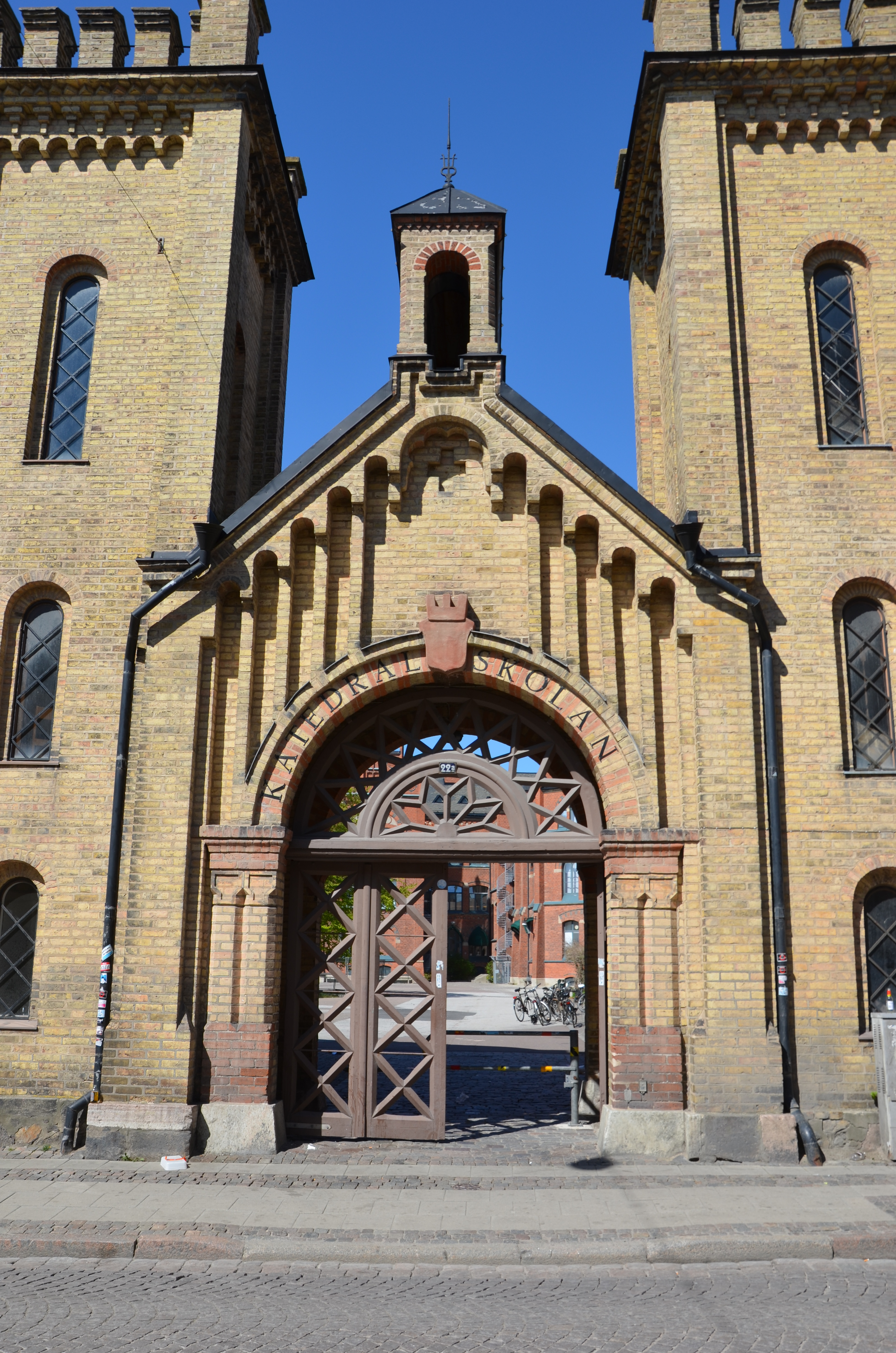 Katedralskolan in Lund, Sweden. Portal from Stora Södergatan